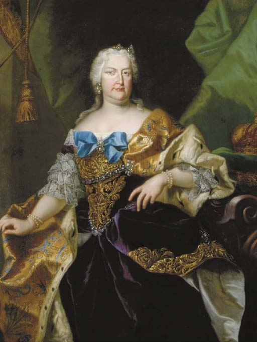 Portrait of Elisabeth Christine, Empress of Austria and Queen of Bohemia and Hungary (1691-1750), standing three-quarter-length, in a violet embroidered dress and ermine lined shawl